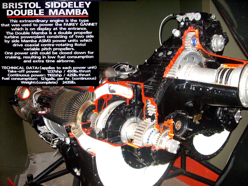 Photo montage with cutaway of a Double Mamba power unit I took/made at Flambards in Cornwall